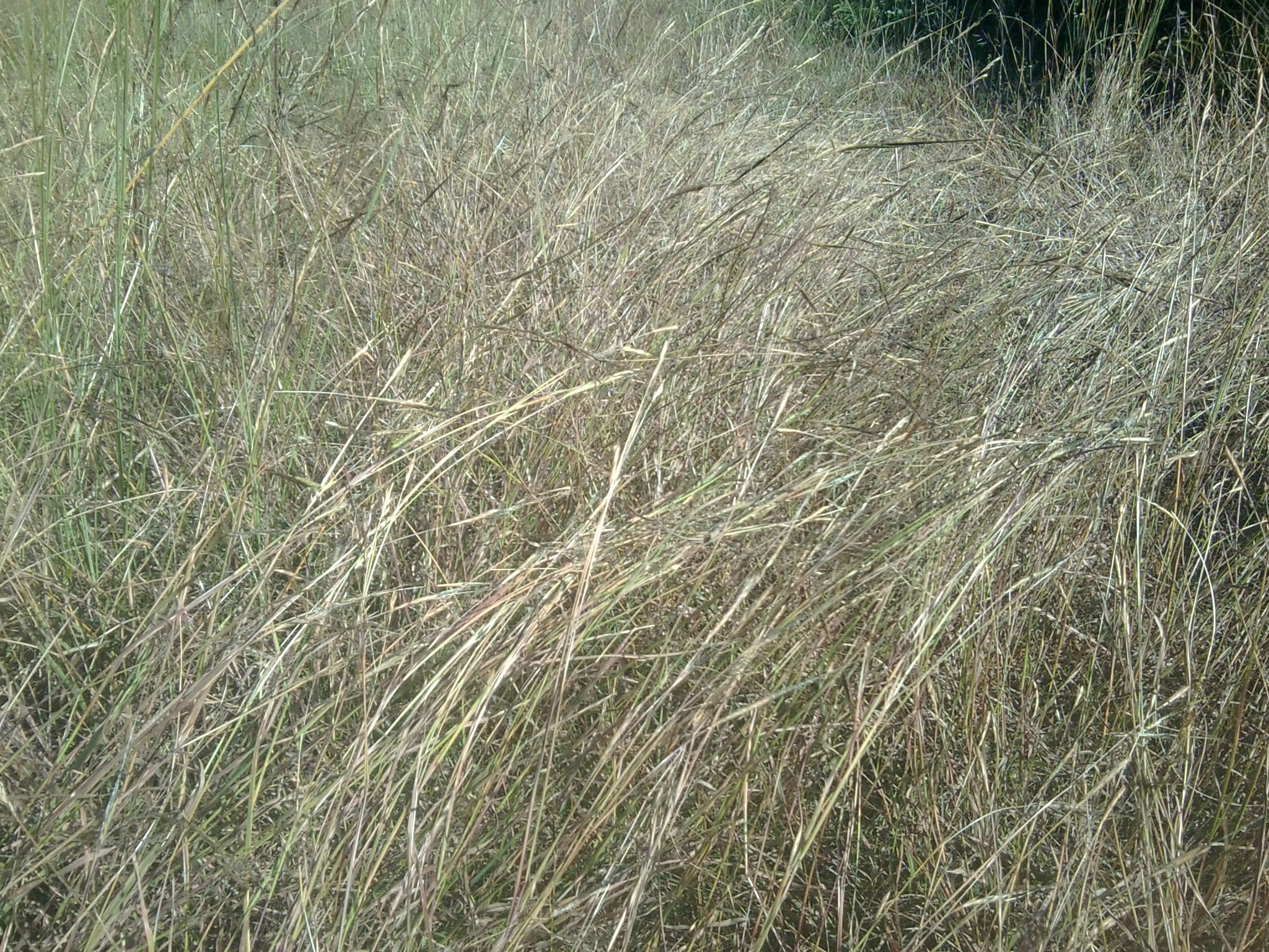 A plant used to make thatched roof in Nepal.